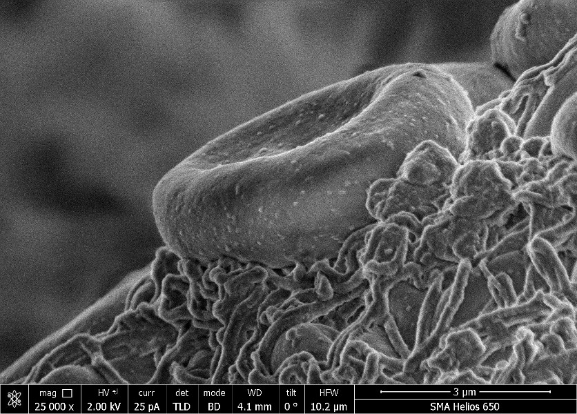 Scanning electron micrograph of a fragment of a fibrin clot in whole blood